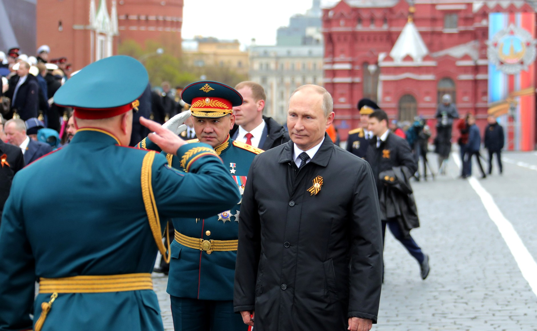 Military parade on Red Square 2017-05-09